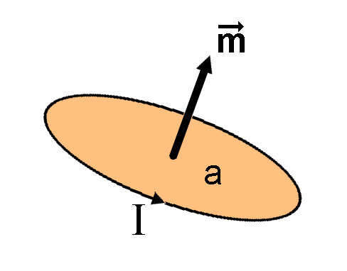 magnetic moment of a current loop